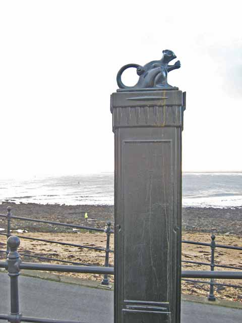 The Hartlepool Monkey This monument on Hartlepool Headland commemorates the possibly apocryphal tale which is by turns a source of pride or embarrassment to Hartlepudlians. It concerns a monkey washed overboard from a ship in the time of the Napoleonic wars. As the monkey was unable to give a good account of itself in any intelligible manner, the worthy citizens of Hartlepool hanged him as a spy.